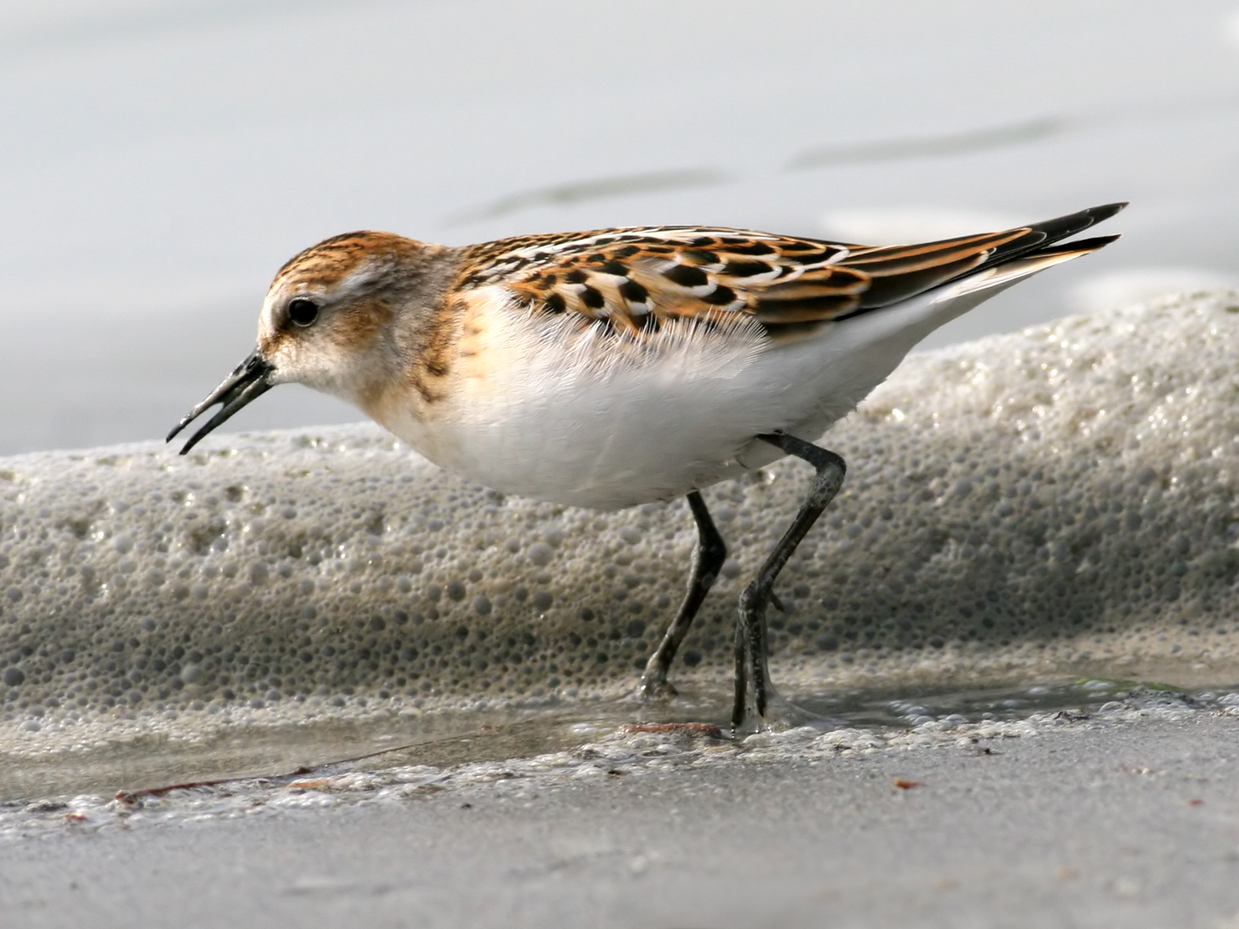 Little Stint (Calidris minuta). Photo taken on the Rheinspitz, Vorarlberg, Austria.